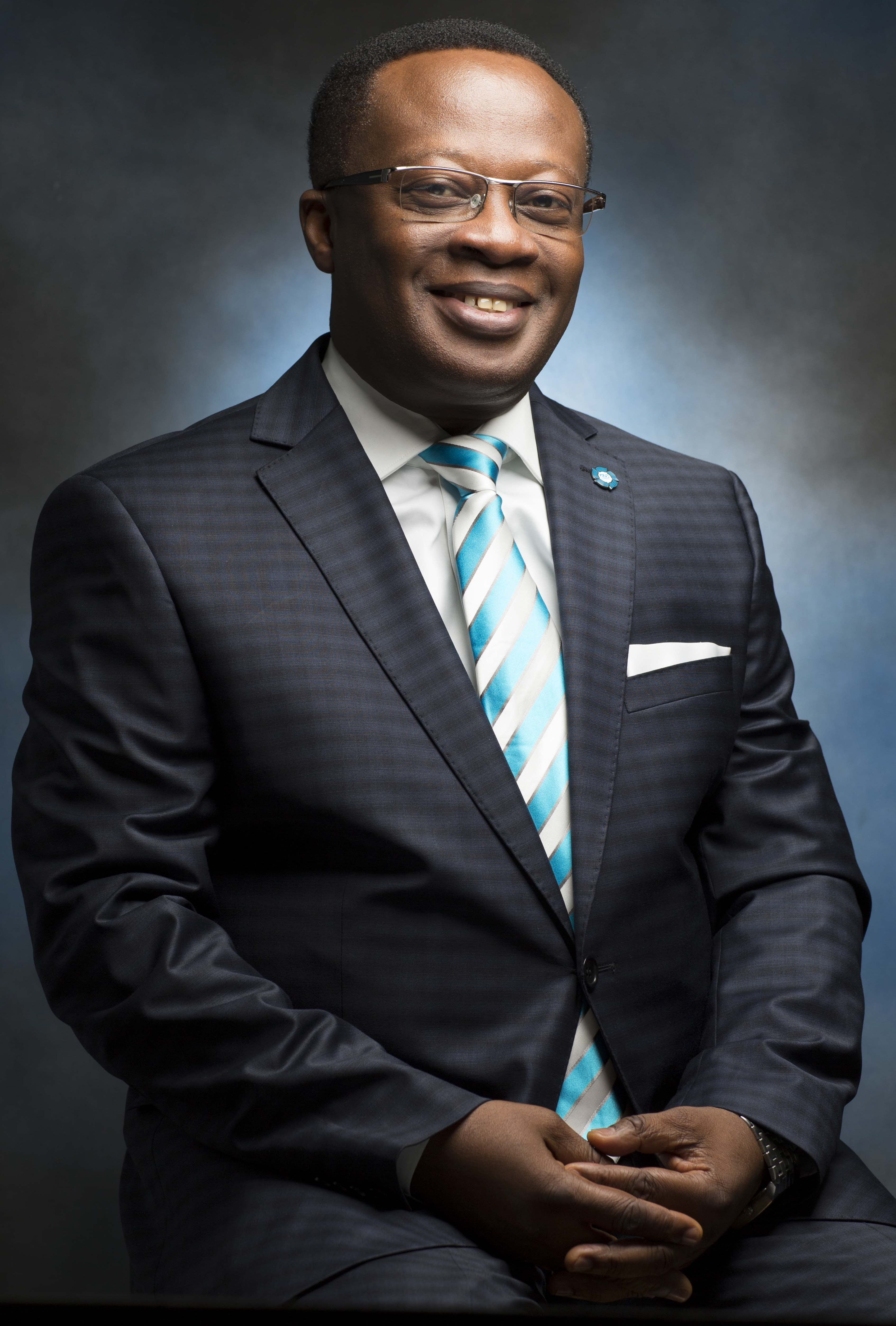 Felix Nyarko-Pong_CEO uniBank (Ghana) Limited